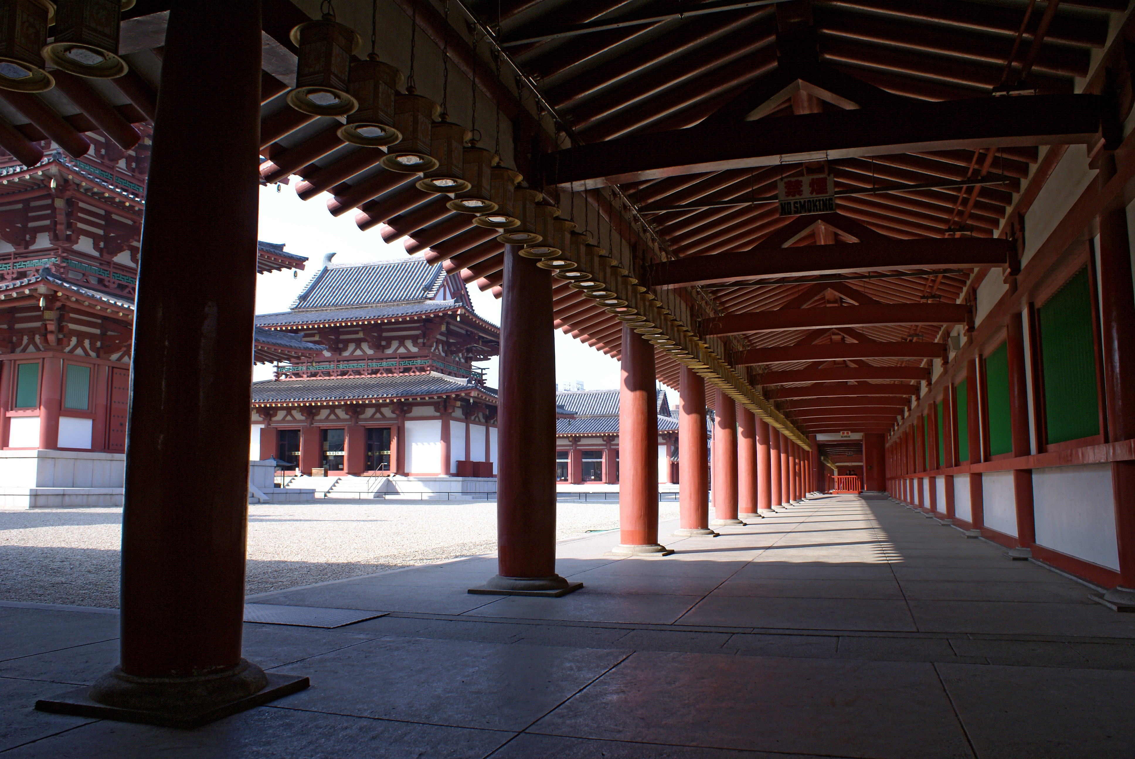 Shitennō-ji in Osaka, Osaka prefecture, Japan